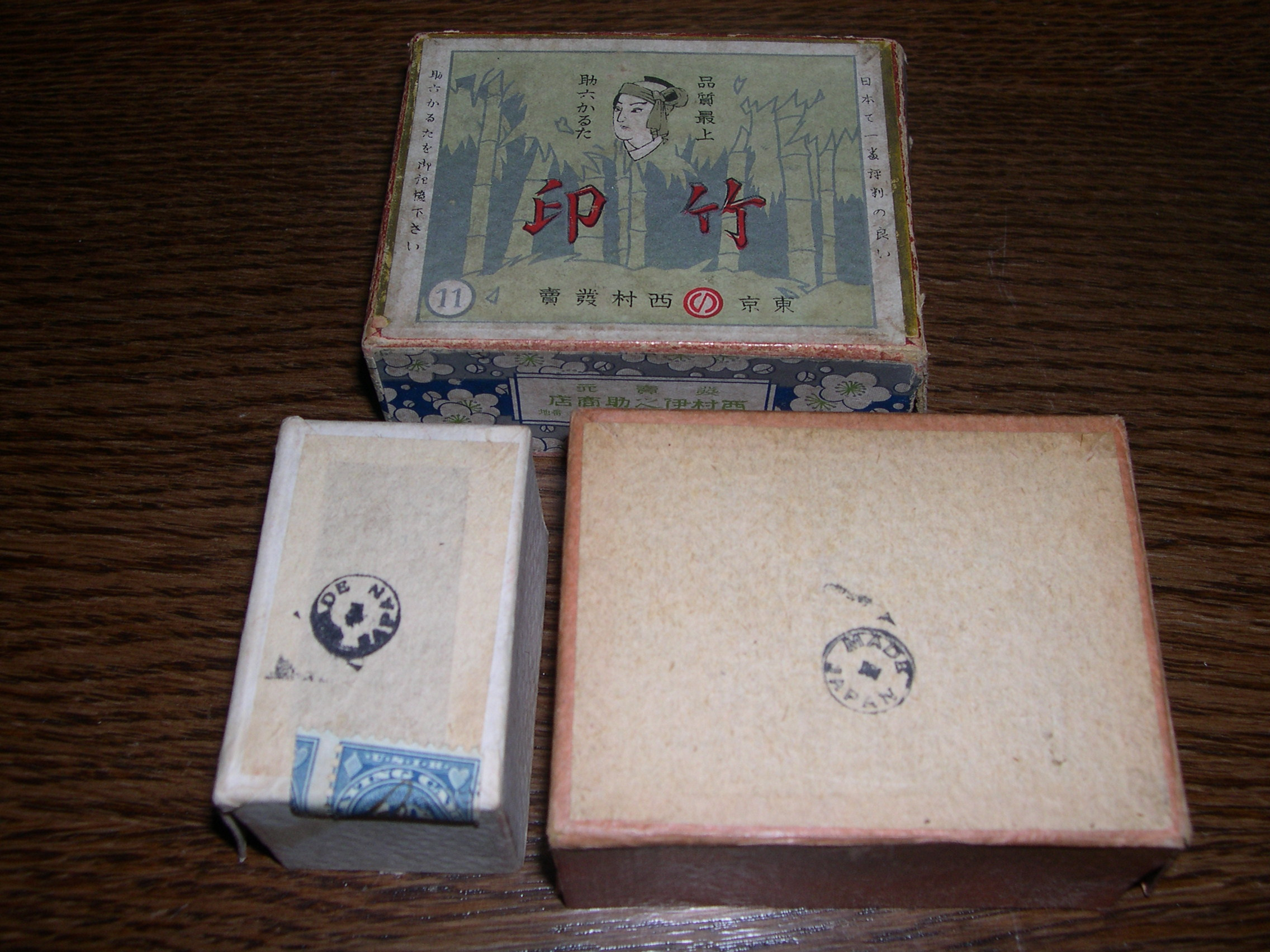 Hanafuda card game box of 1930